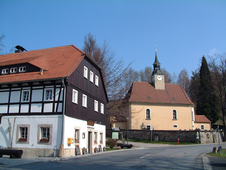 Church Lückendorf, Saxony, Germany